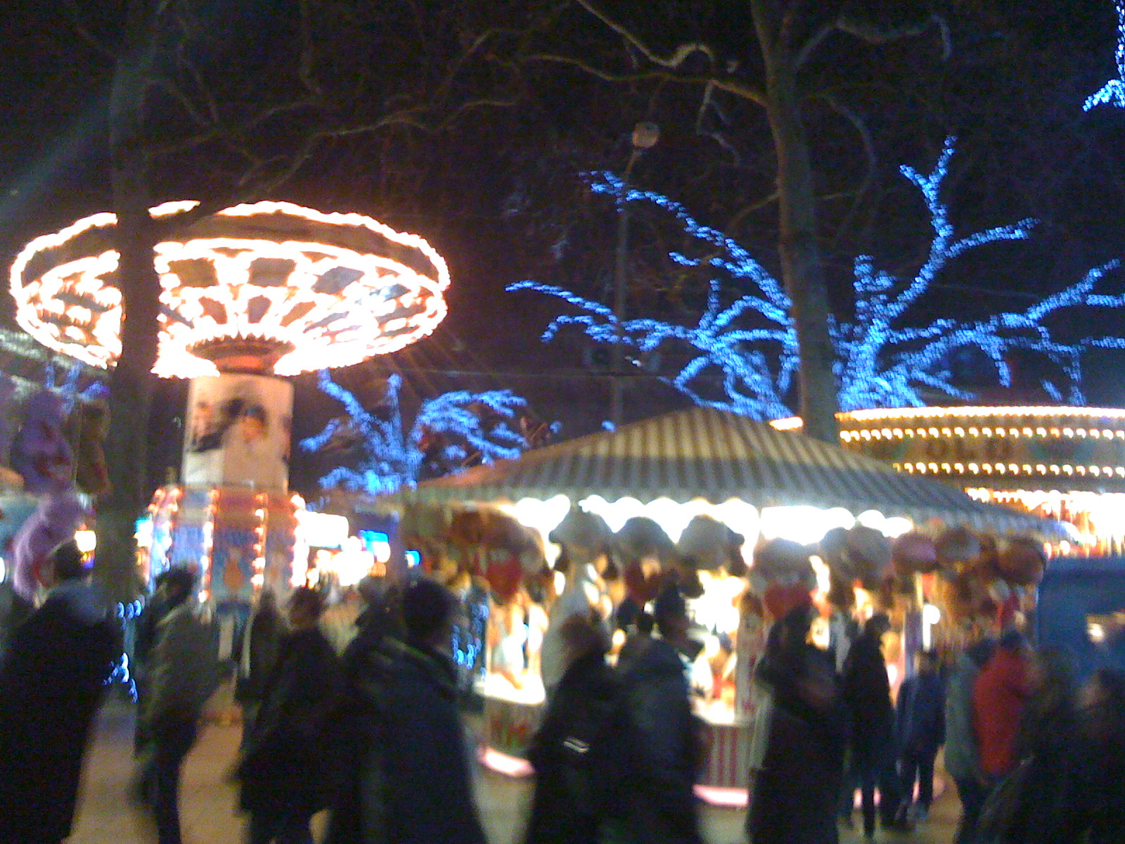 Leicester Square - lots of movement from carousels and people